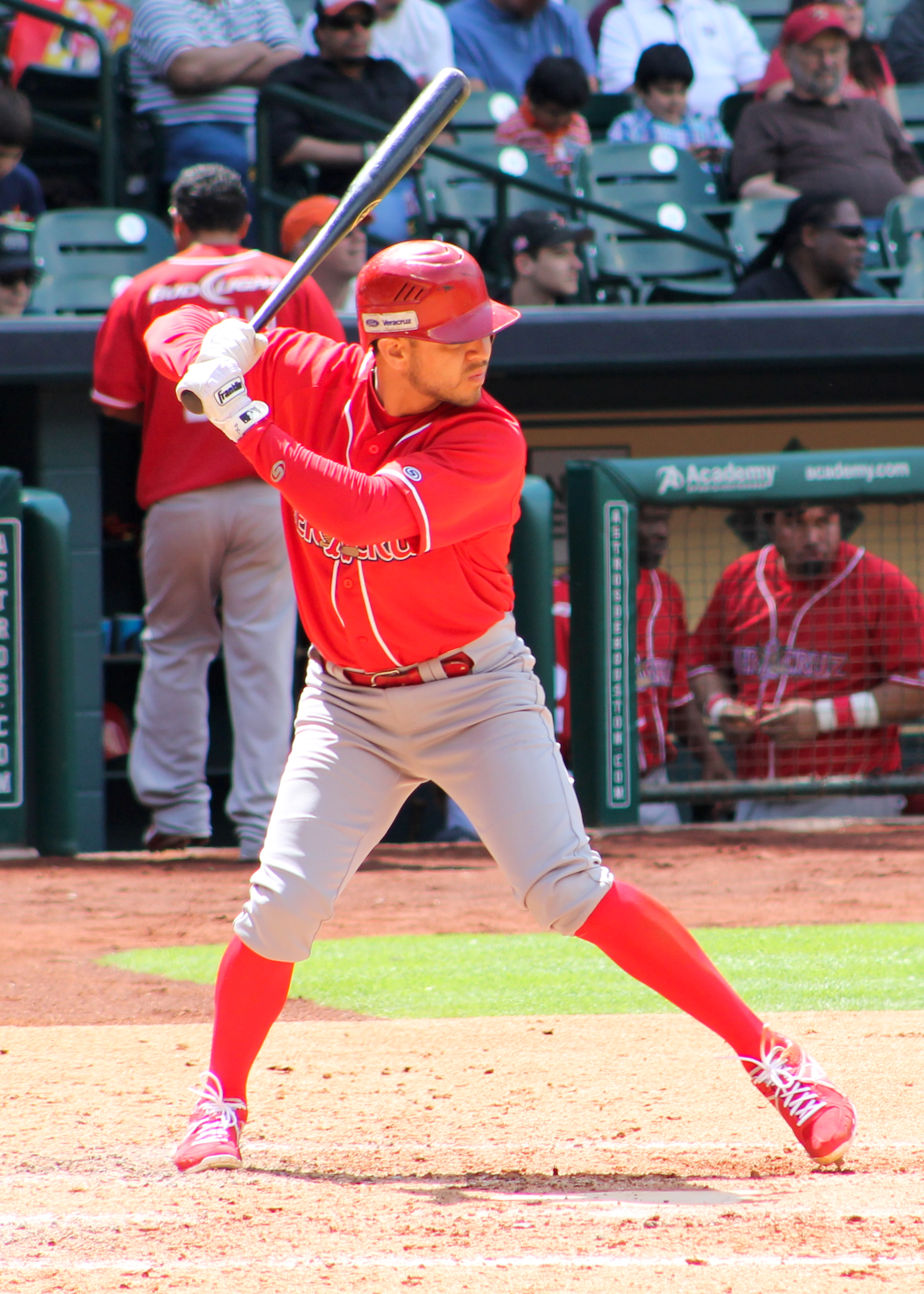 Jose Chavez, shortstop for the Mexican League's Rojos del Águila de Veracruz in a March 2014 exhibition in Houston.